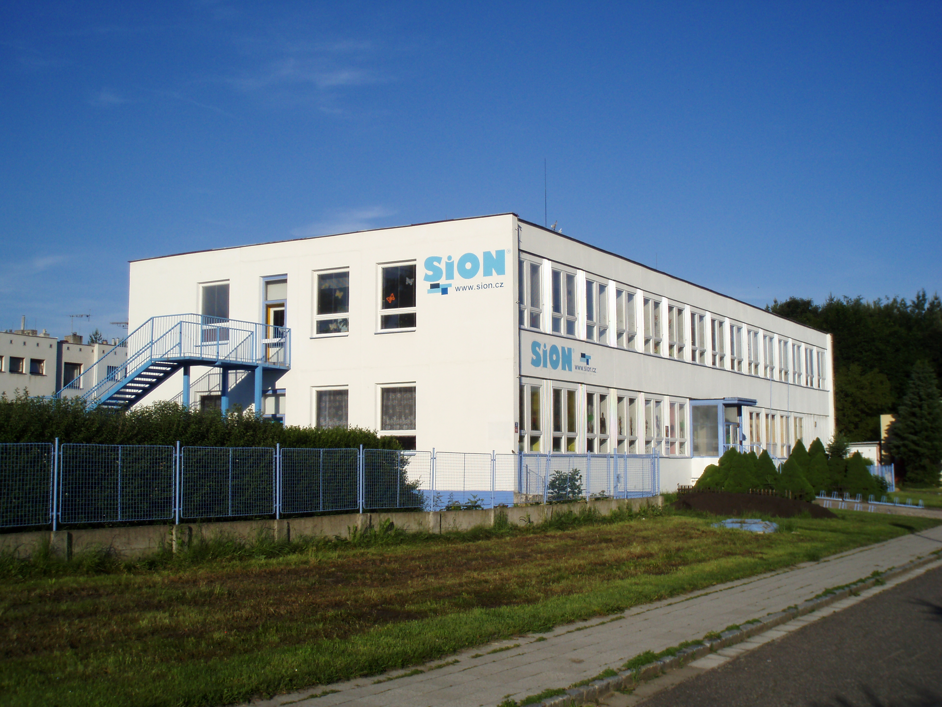 Primary School "Sion" in Hradec Králové (Czechia)